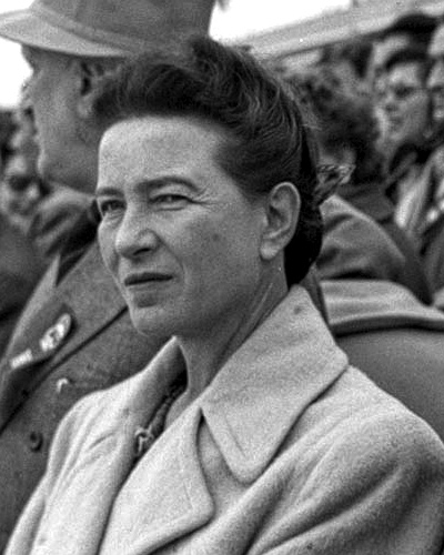 Crop of File:Simone de Beauvoir & Jean-Paul Sartre in Beijing 1955.jpg, Simone de Beauvoir and Jean-Paul Sartre attending the ceremony of 6th Anniversary of Founding of Communist China in Beijing on 1 October 1955 in Tiananmen square